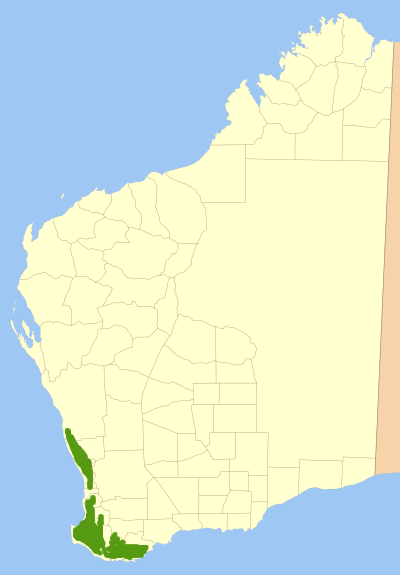 Data from WA Herbarium and Banksia Atlas, p. 121.